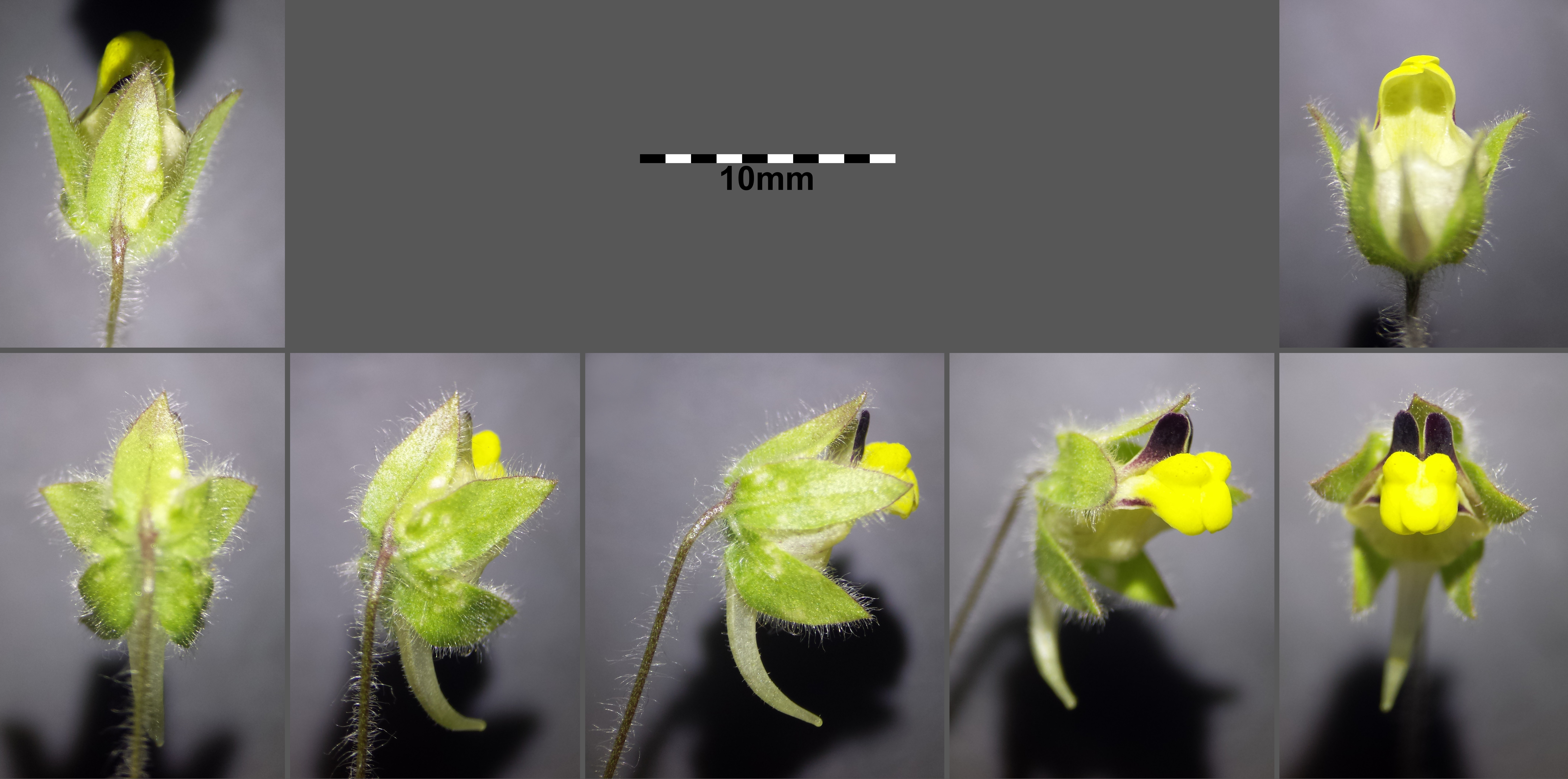 Flower Taxonym: Kickxia spuria ss Fischer et al. EfÖLS 2008 ISBN 978-3-85474-187-9 Location: Steinberg near Niederhollabrunn, district Korneuburg, Lower Austria - ca. 375 m a.s.l. Habitat: field